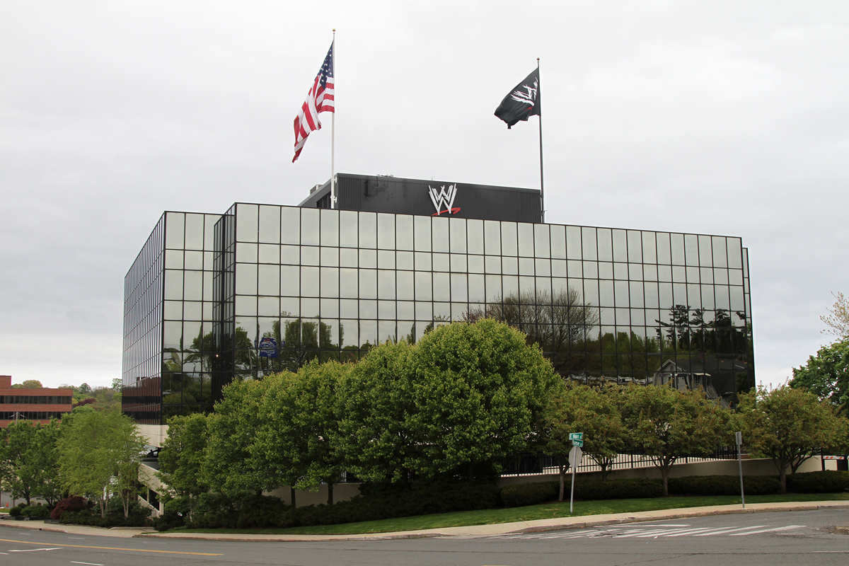 World Wrestling Entertainment, Inc. (WWE) corporate headquarters, 1241 East Main Street Stamford, Connecticut, USA.